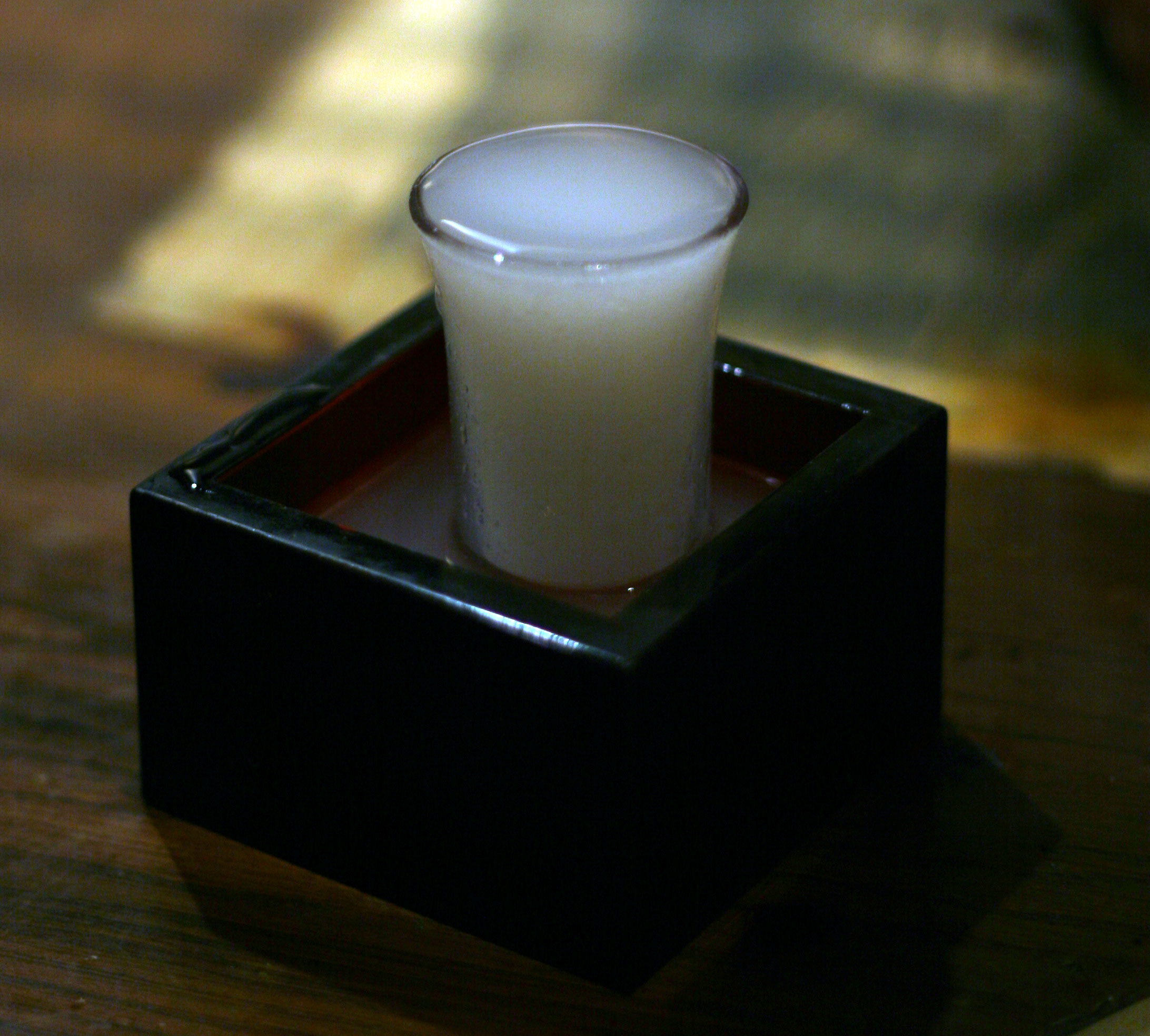 That's good looking Sake.